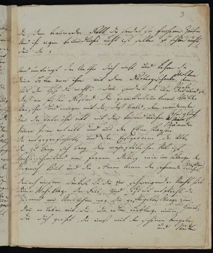 Manuscript of Friedrich Hölderlin: Der Archipelagus, page 3. From Homburg